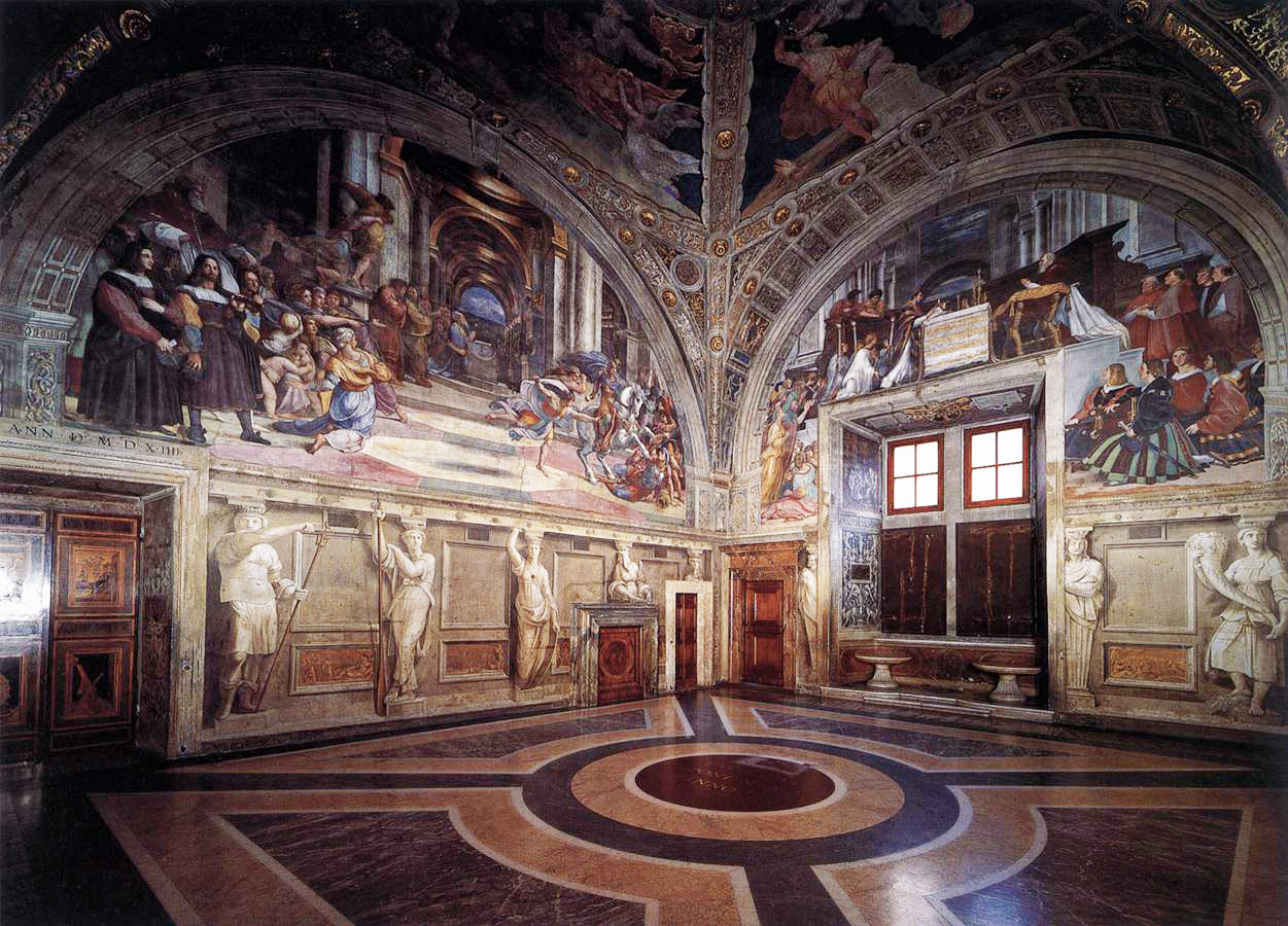 Art.